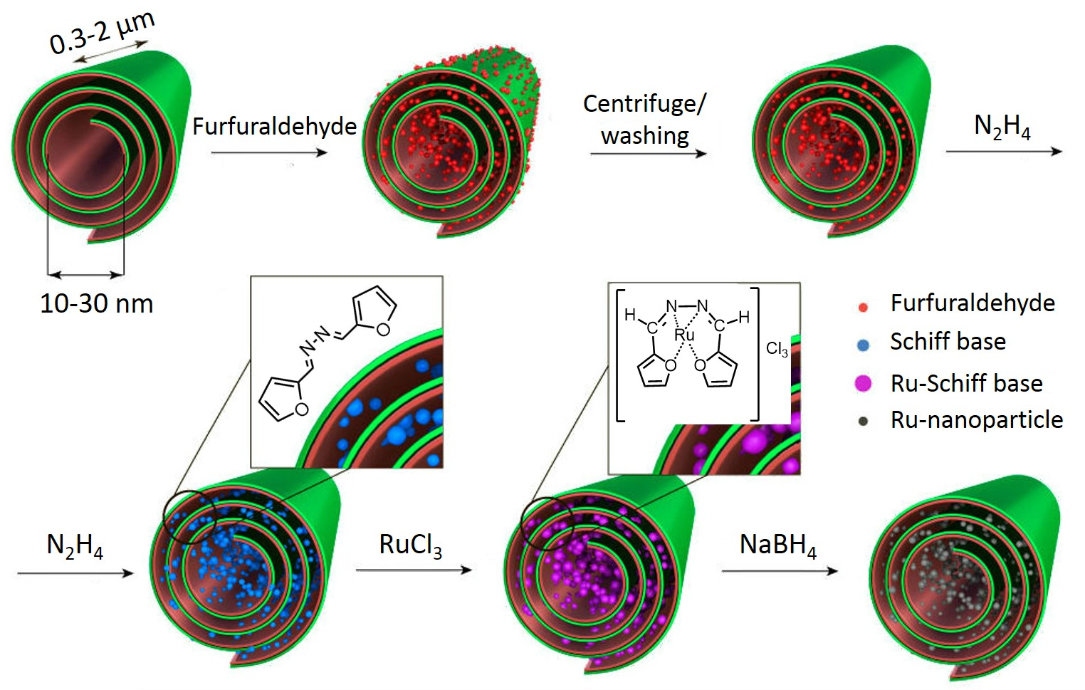 Formation of Schiff base from furfuraldehyde and hydrazine hydrate inside a rolled halloysite nanotube, and the proposed structure of the ruthenium complex.